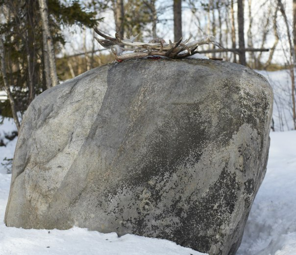 sami worship seyd